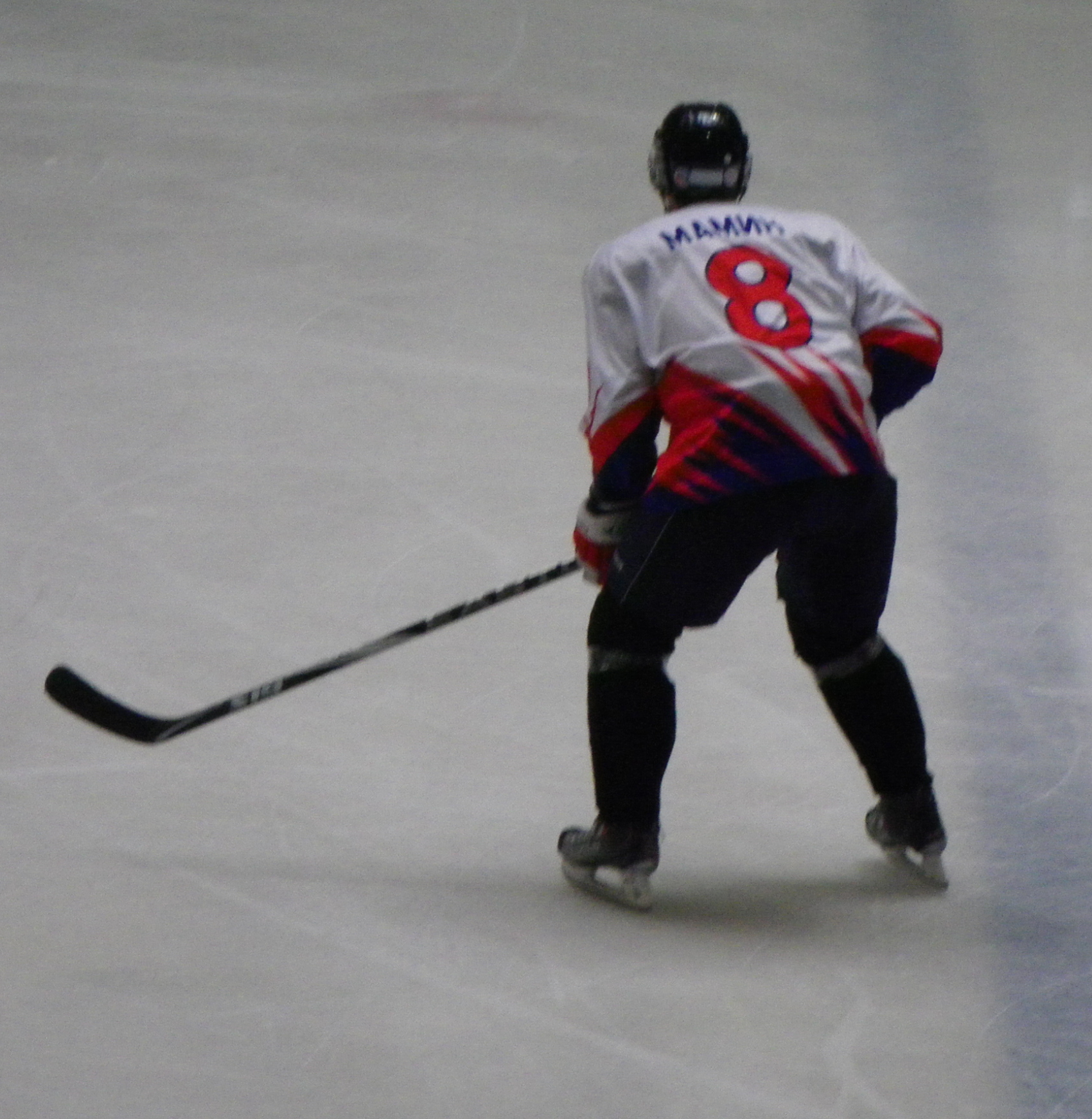 Maksim Mamin, russian ice hockey player with Metallurg Magnitogorsk